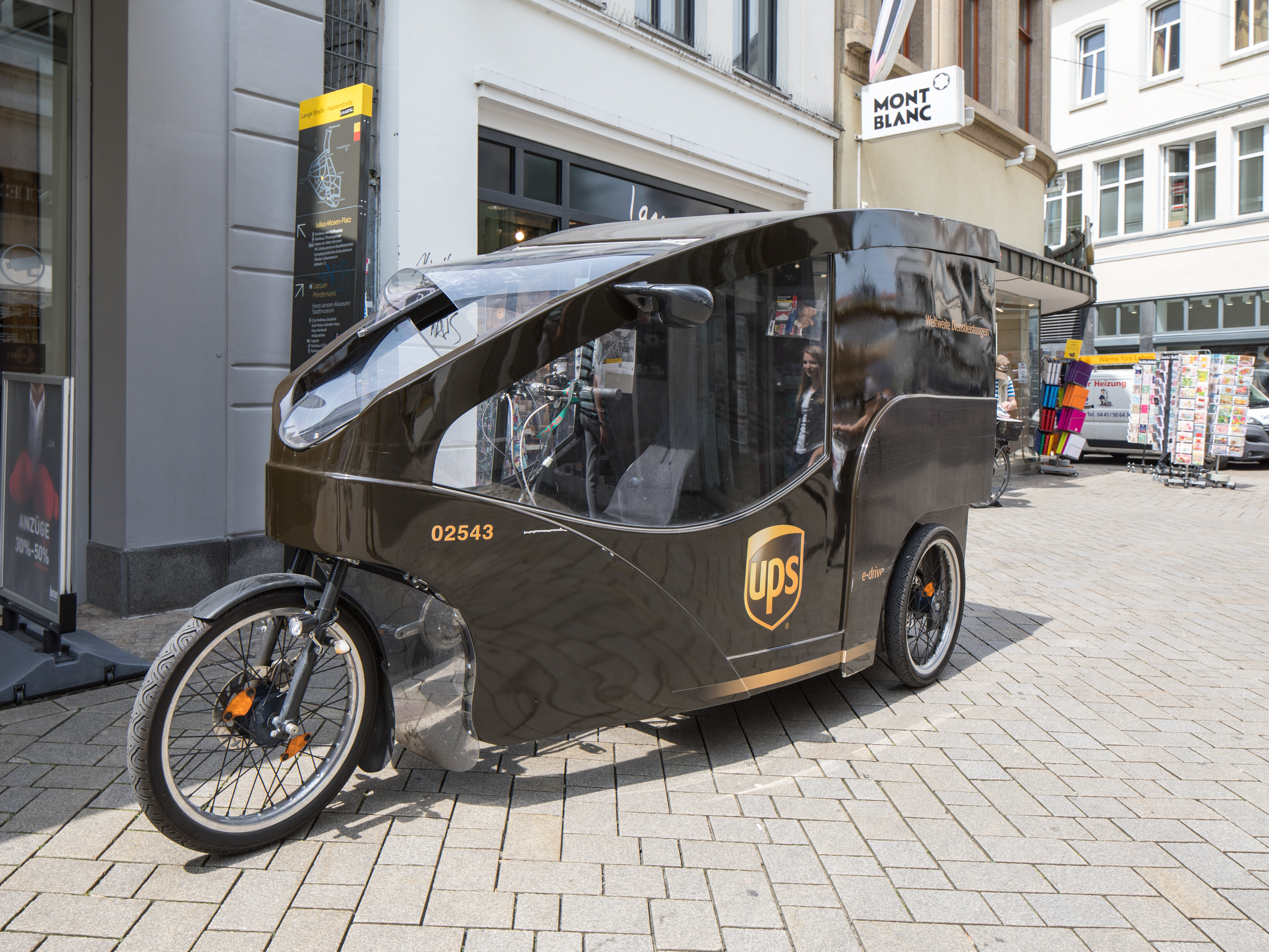 UPS e-drive delivery tricycle in Oldenburg, Lower Saxony, Germany.